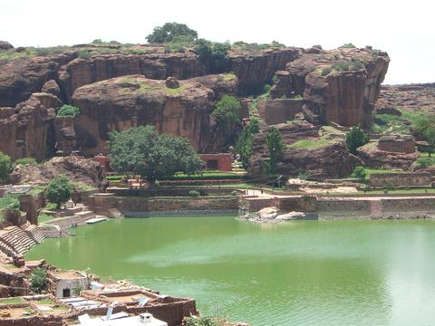 This Photo was taken by Mr. Sudarshan Bhat Khandige during his visit to Pattadakal-Badami (Karnataka state, India) in 2006. The Photograph has been uploaded with full permission from the owner.